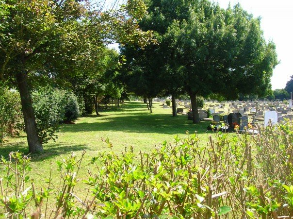 Rowan Avenue Elm Drive Aldrington, actual location of Rowan Halt railway station